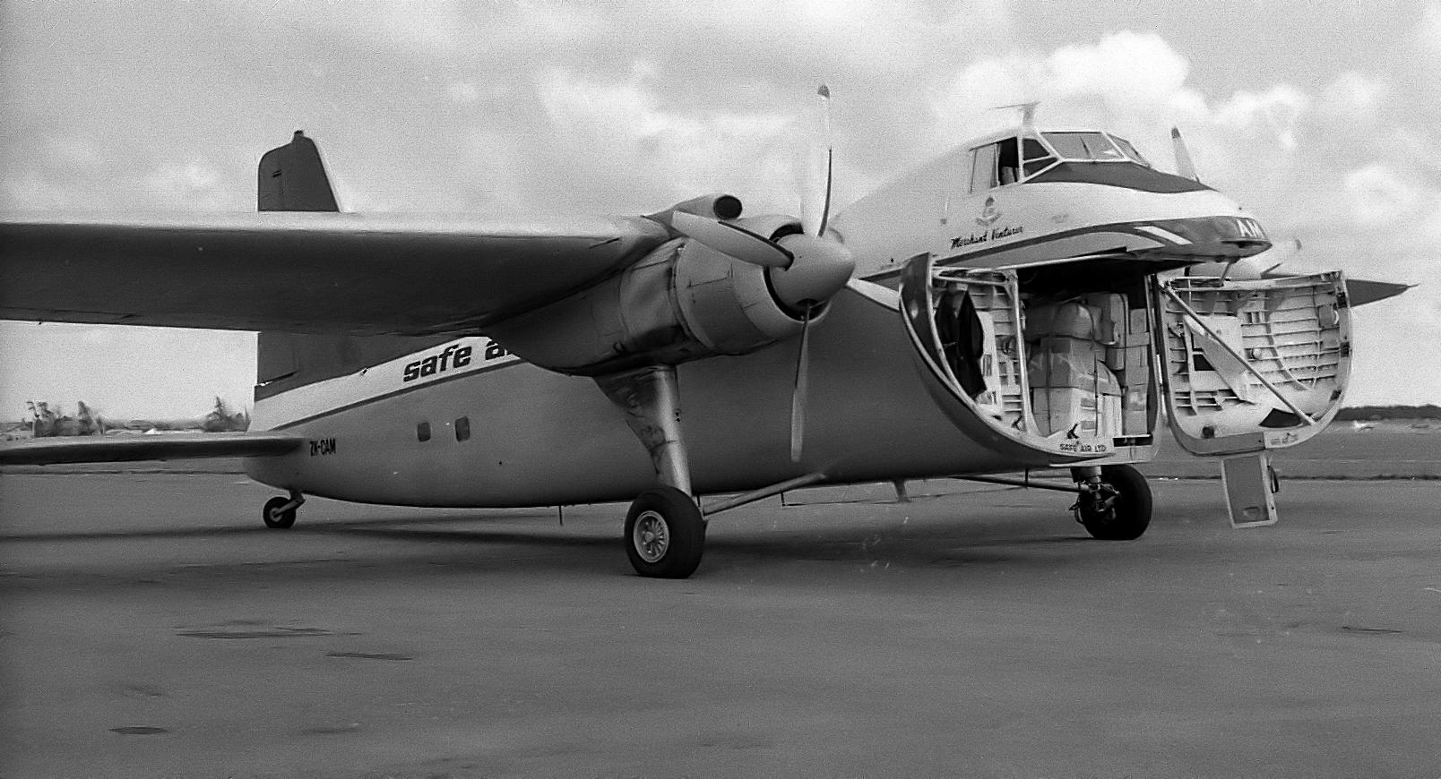 Delivered to Pakistani Air Force, 1953. To SAFE Air 1961. Written off Blenheim 1981 when undercarriage collapsed due to fatigue crack.